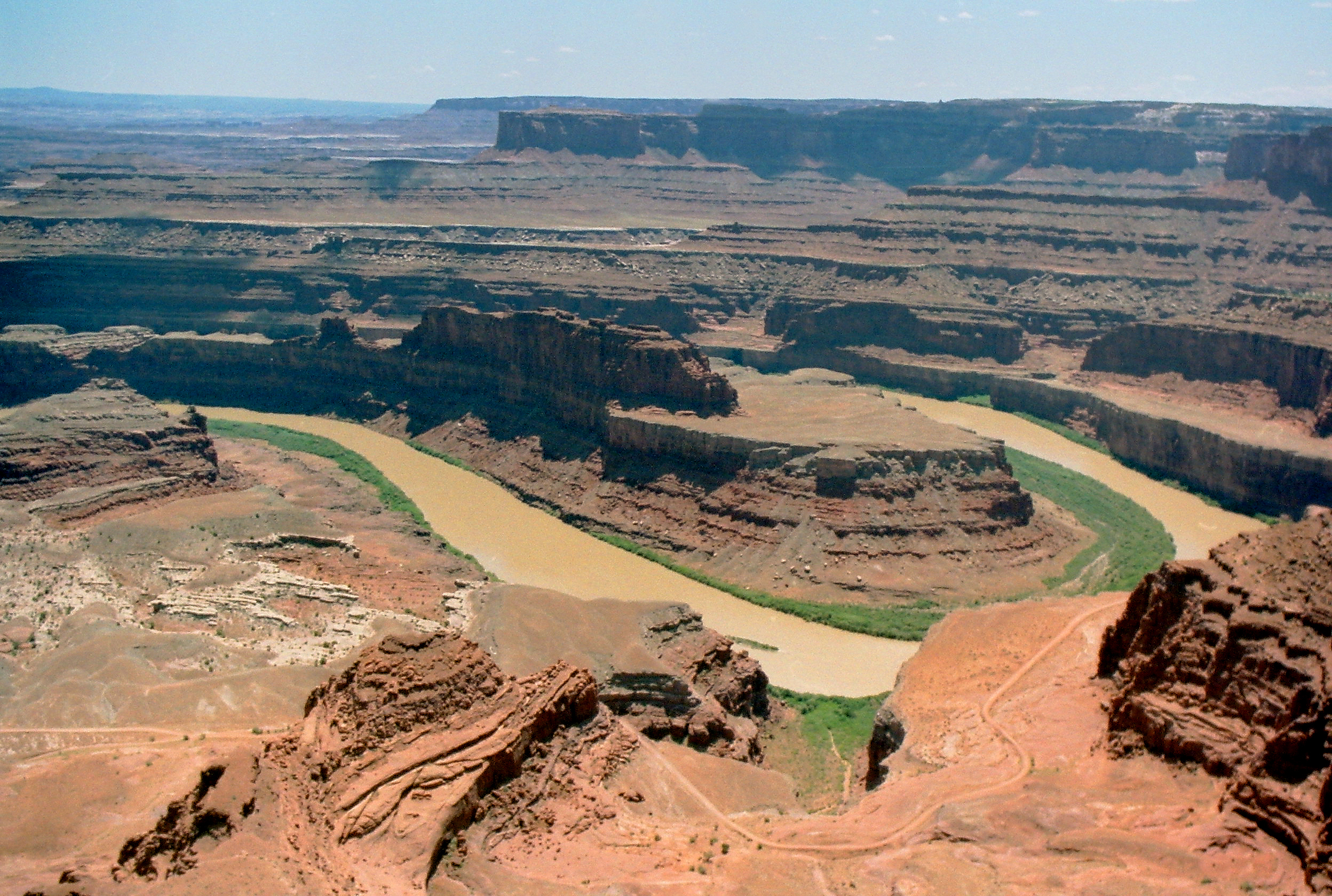 Dead Horse Point State Park is located in eastern Utah near the city of Moab, United States. View from Dead Horse Point to the Colorado River.